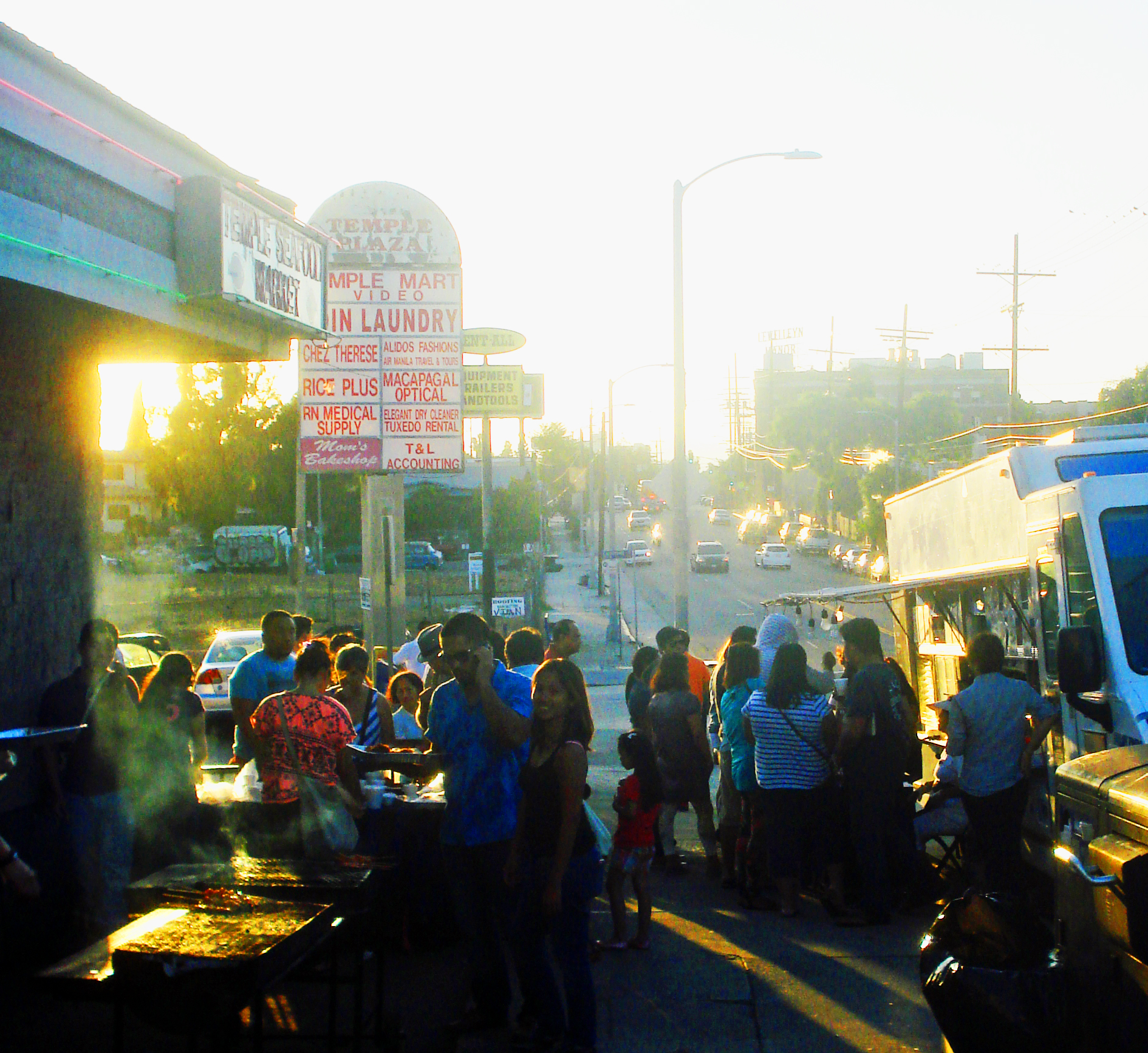 Temple Street Market Street food has become a hit.